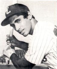 Image cropped from a baseball card of Damaso Garcia from the 1976 Sussman Fort Lauderdale Yankees set.